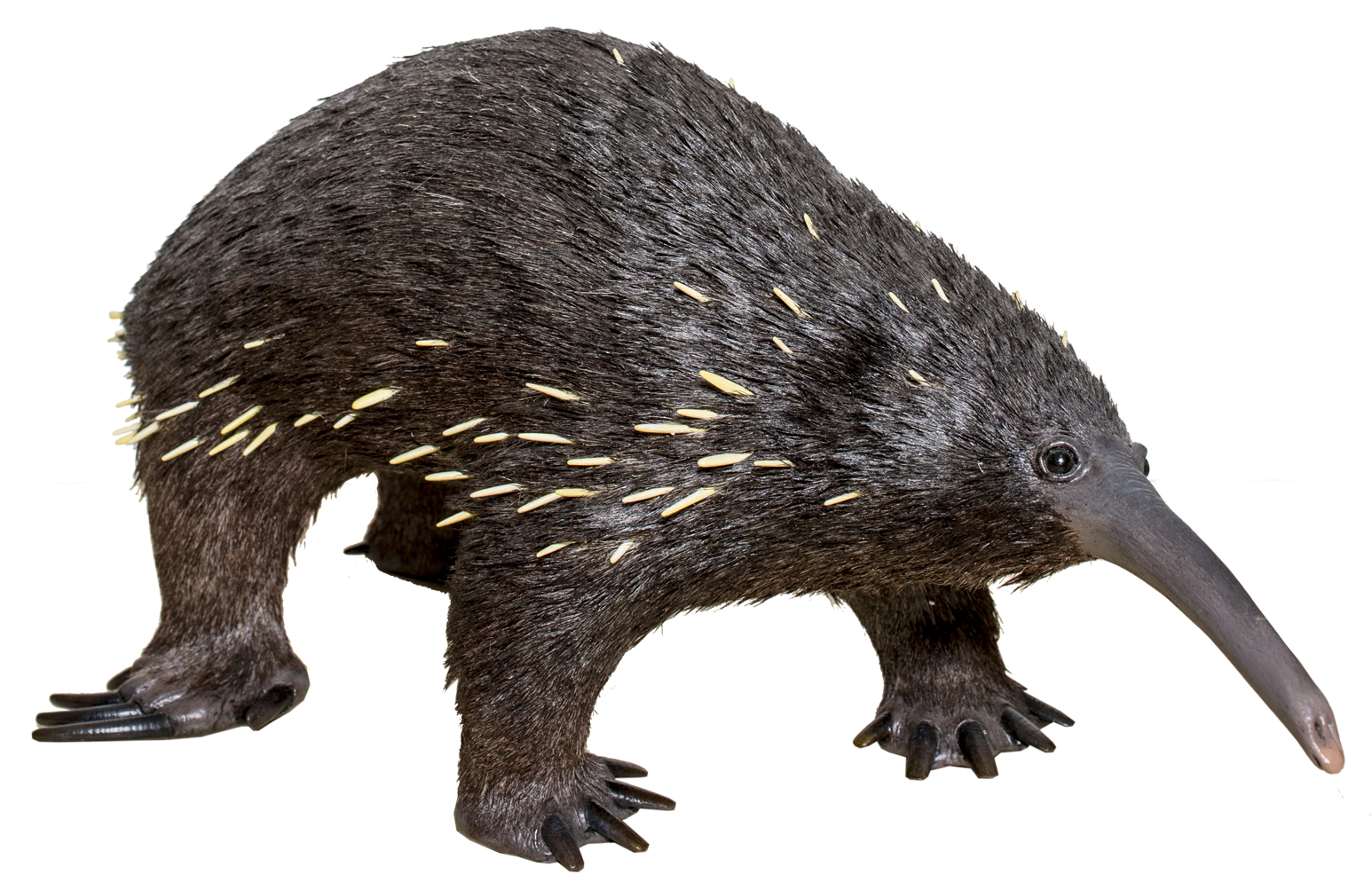 Eastern long-beaked echidna (Zaglossus bartoni). Replica